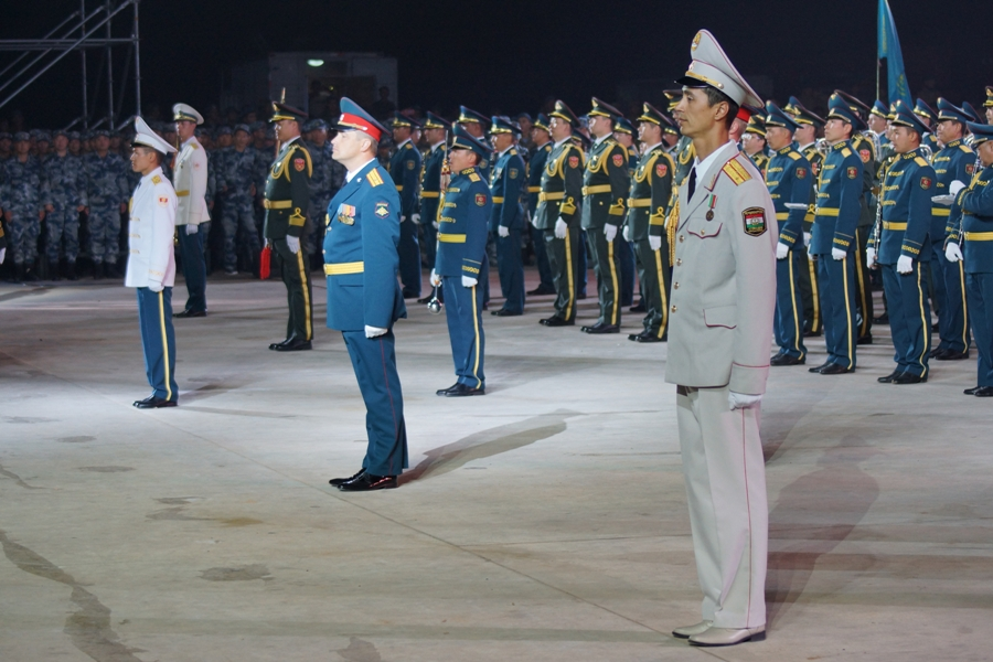 Первый Международный военно-музыкальный фестиваль «Труба мира» в рамках международного учения «Мирная миссия-2014»